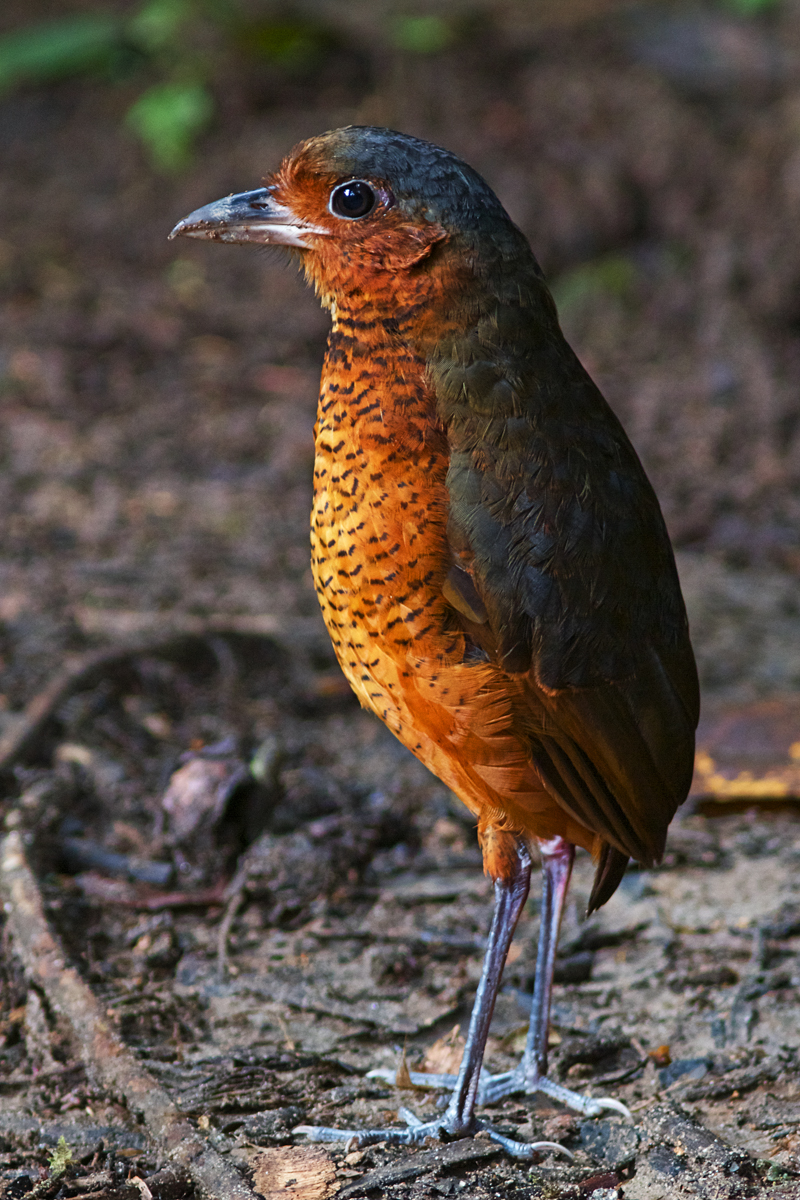 Giant Antpitta photo taken at Paz de Aves, (northwest) Ecuador.